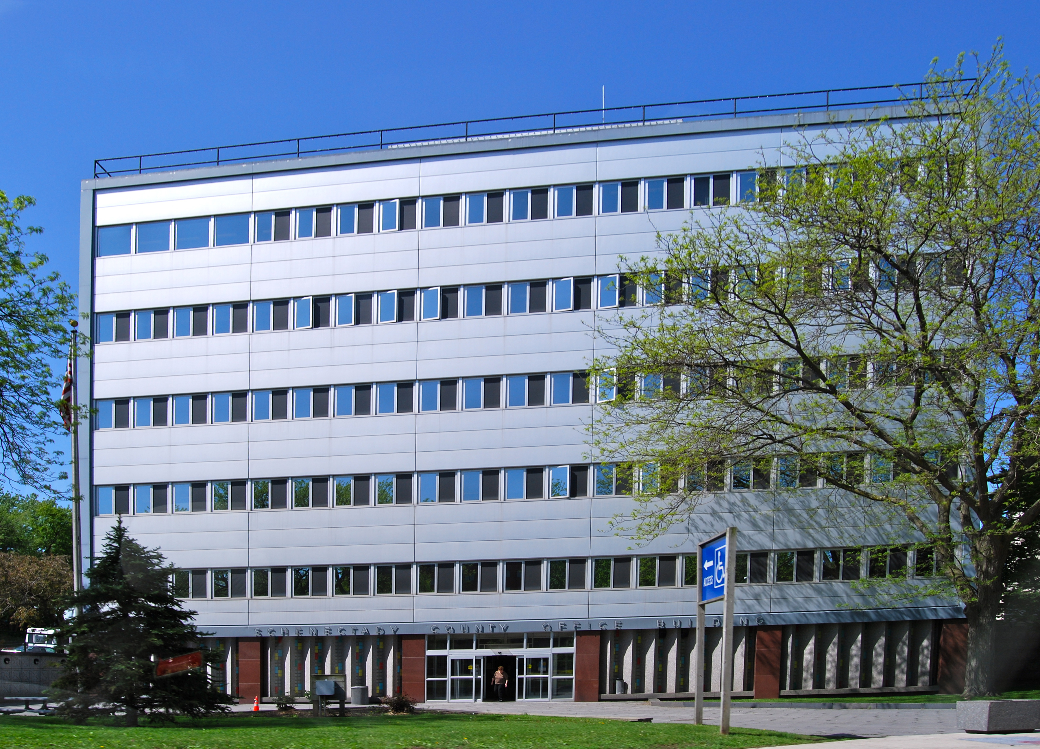 Schenectady County Office Building, located in Schenectady, New York, United States